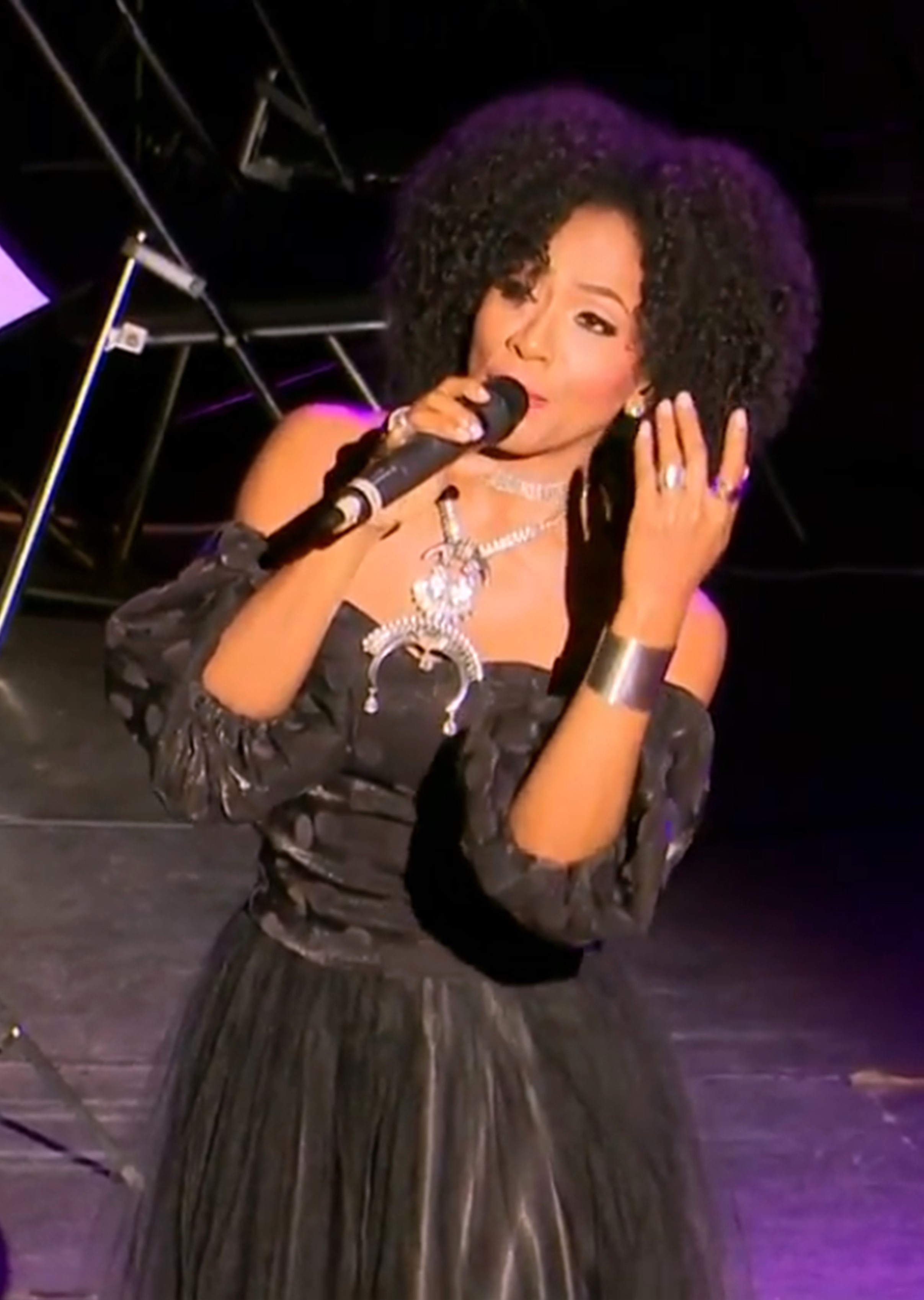 Karla Kanora, ecuadorian singer